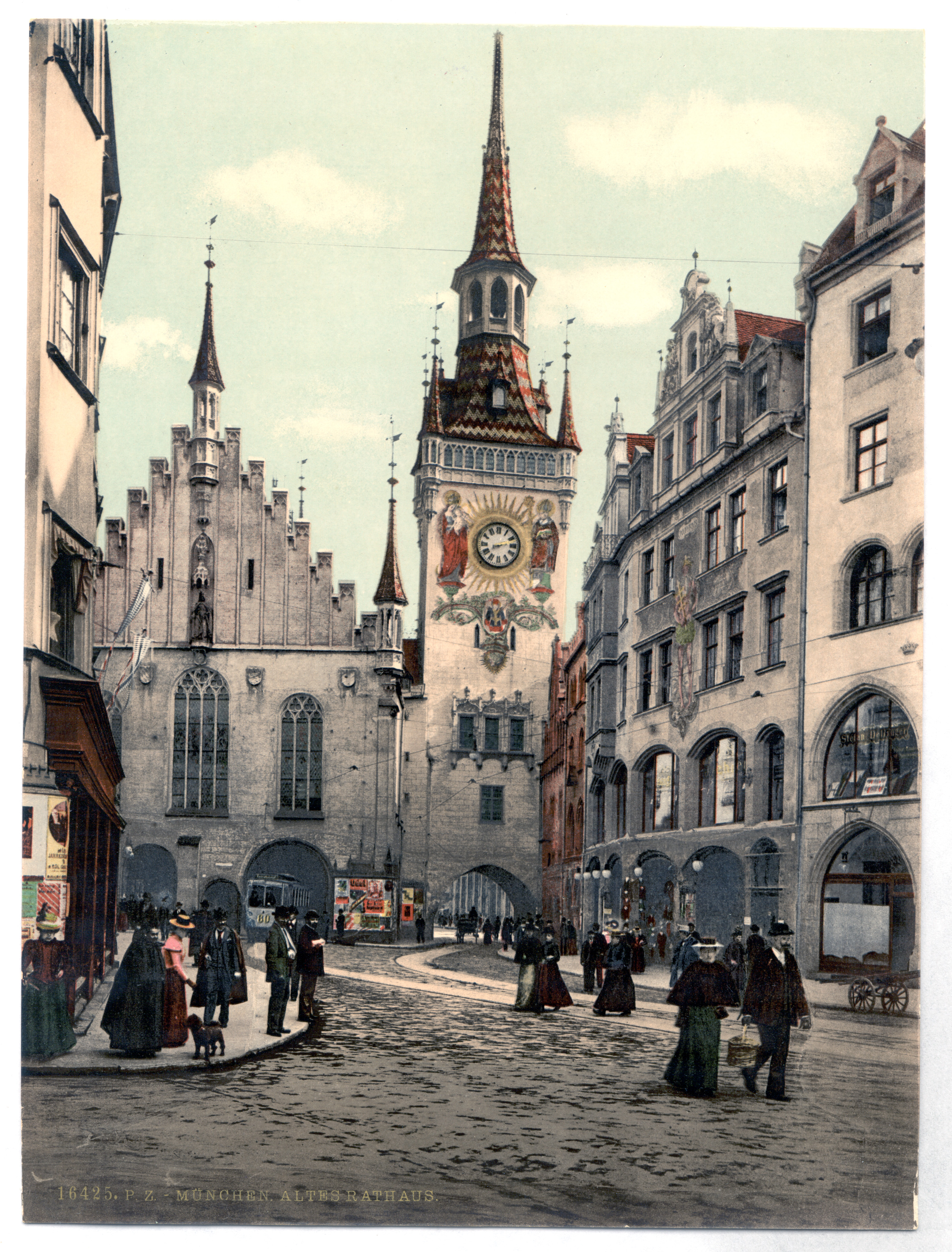 The Munich Old Town-hall seen from Marienplatz towards Tal